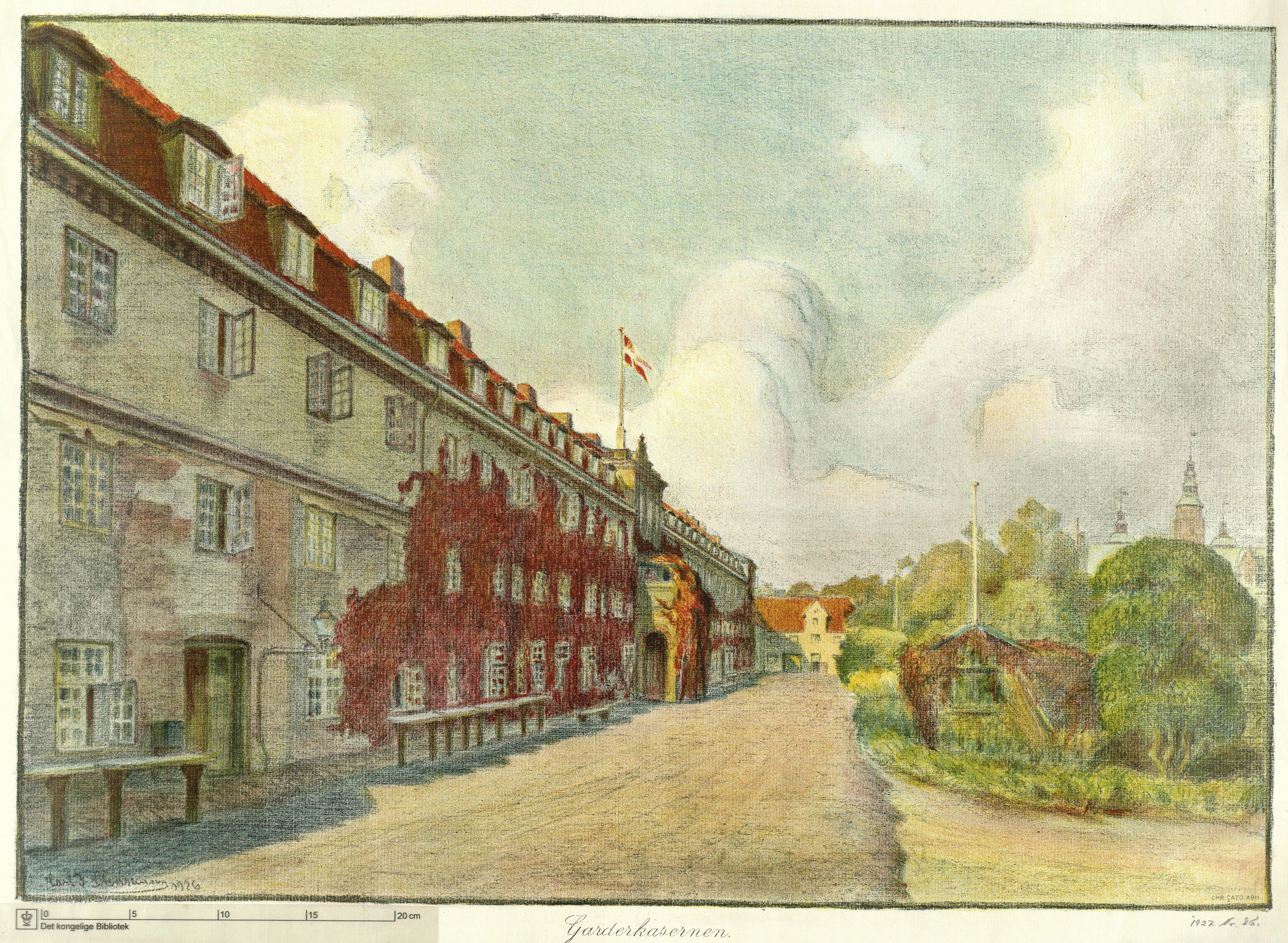 Garderkasernen om Gothersgade in Copenhagen, Denmark